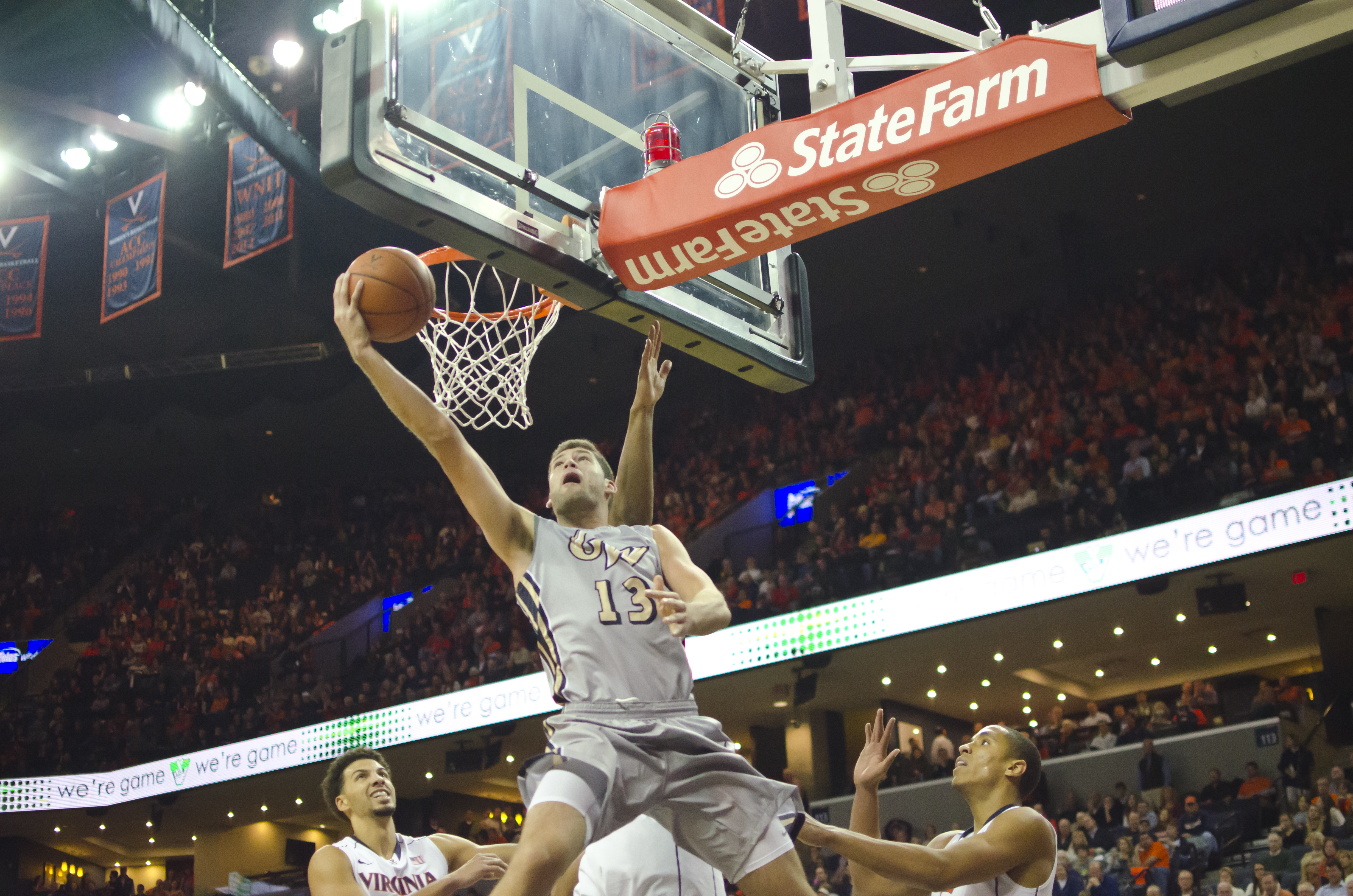 George Washington's Patricio Garino lays in the up-and-under.